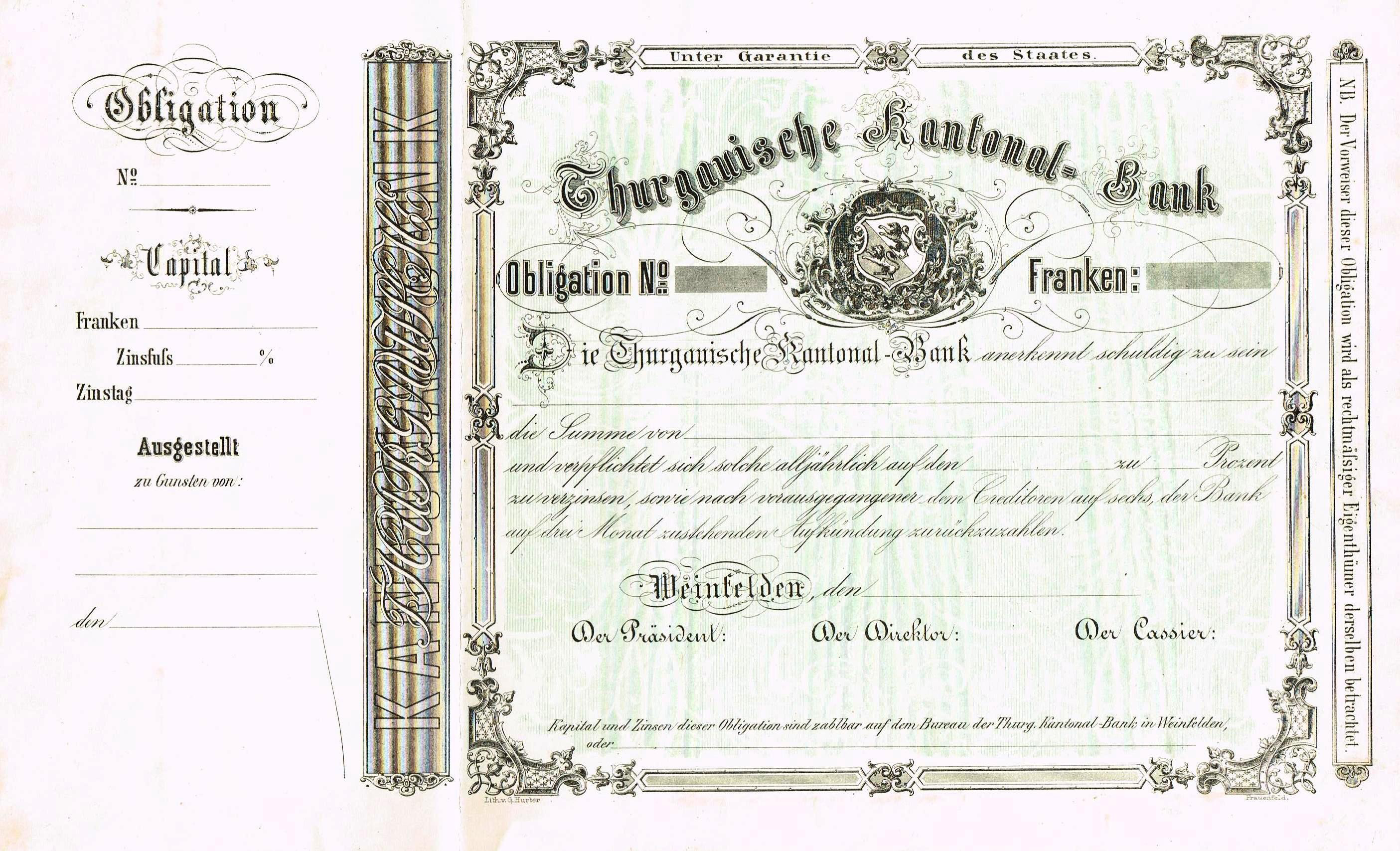 unissued bond of the Thurgauischen Kantonalbank, created around 1880